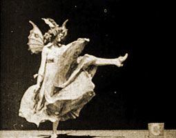 A still from the 1894 film, "Annabelle Butterfly".